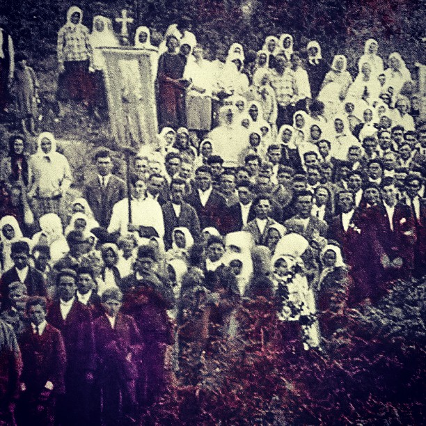 Bosnian Polish farmers at a procession ceremony